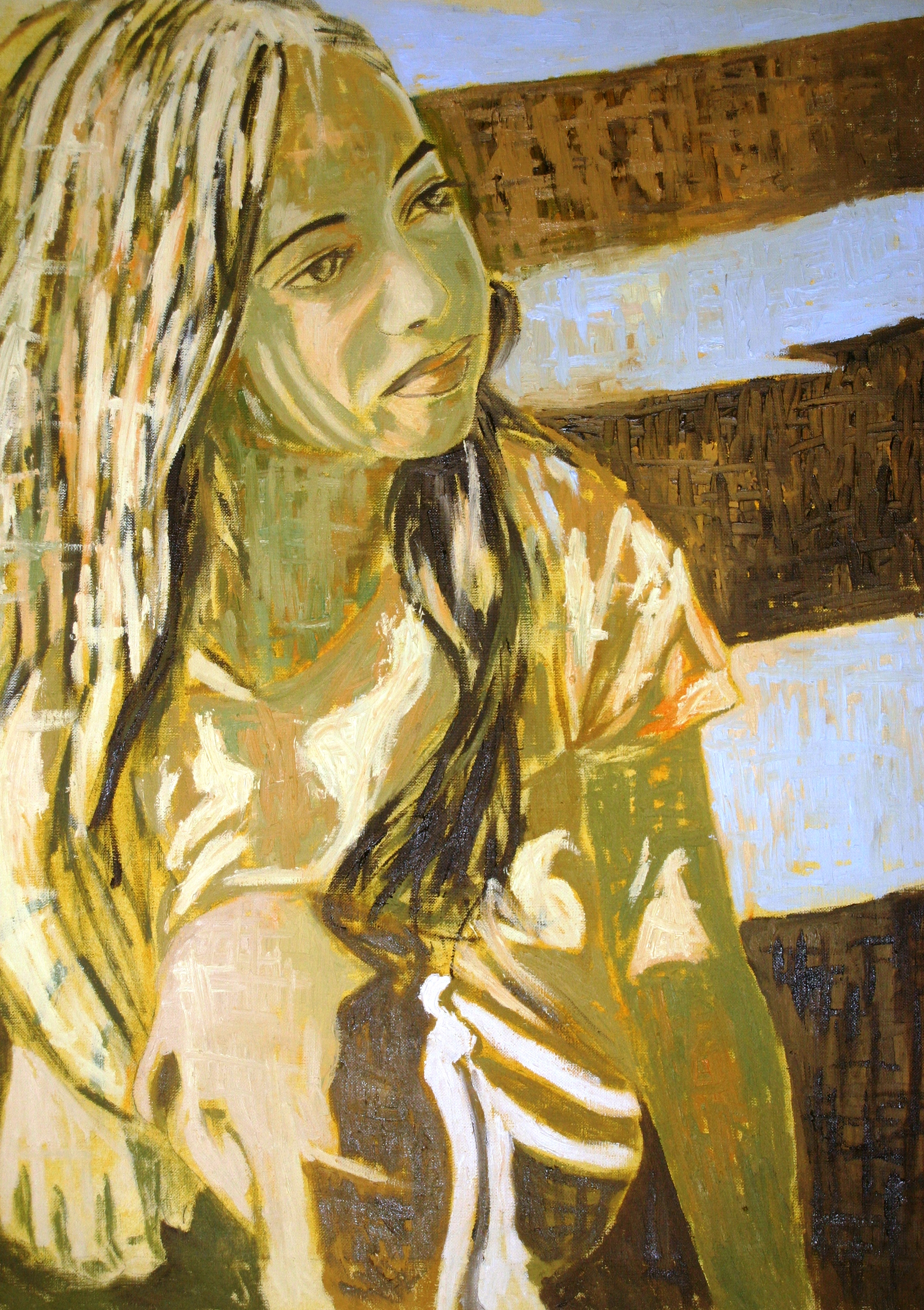 Roma girl by Zsolt Vári